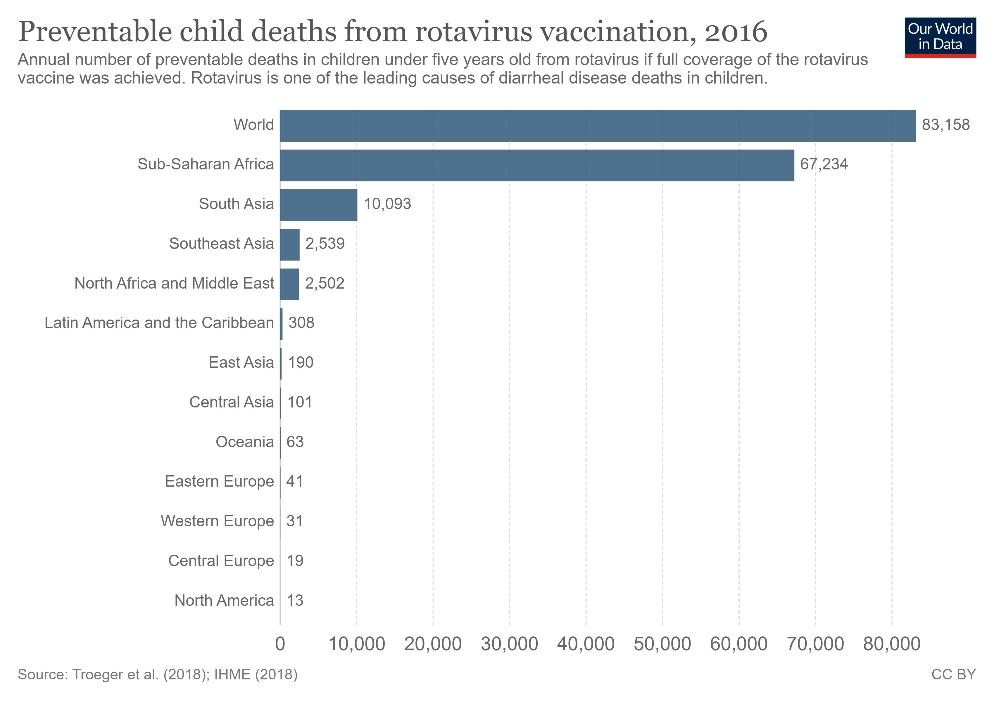 A graph